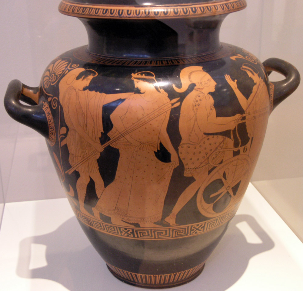 Theseus leading Helen to a chariot arranged by Peirithoos. Helen's sister, Phoibe (on the right), watches on. Their names are inscribed overhead in white characters: Theseus, Helen, Peri(tho)os, Phoiba. Attic red-figure stamnos by Polygnotos, ca. 430-420 BC. National Archaeological Museum in Athens, 18063.